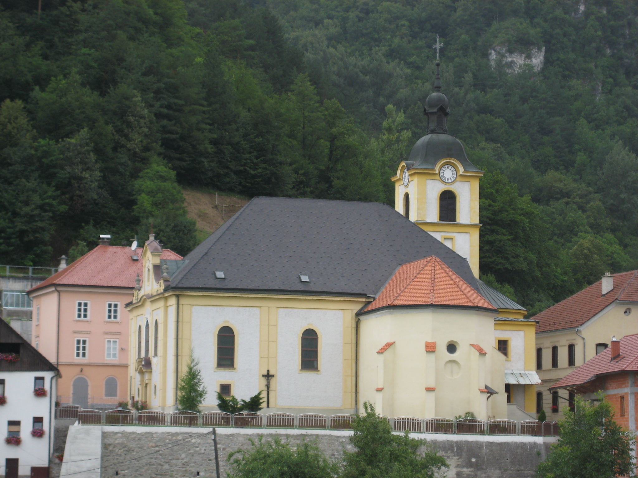 Radeče, town in Slovenia. Church.